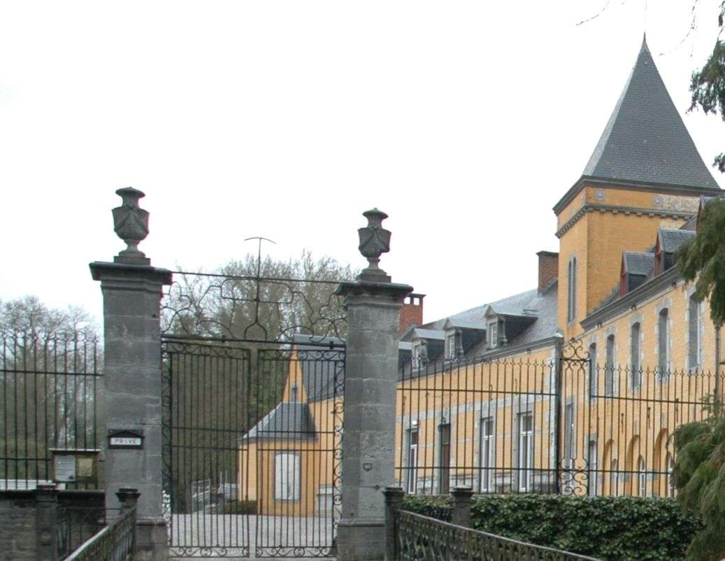 Villers-sur-Lesse Castle in Belgium